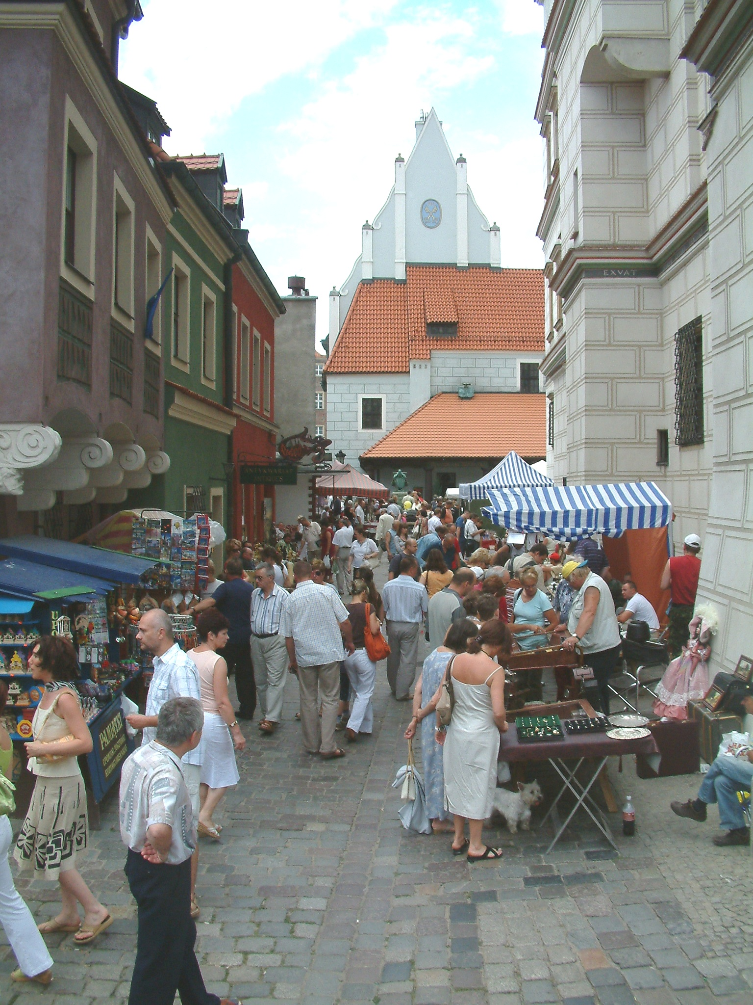 Funfair of St. John in Poznań 2007